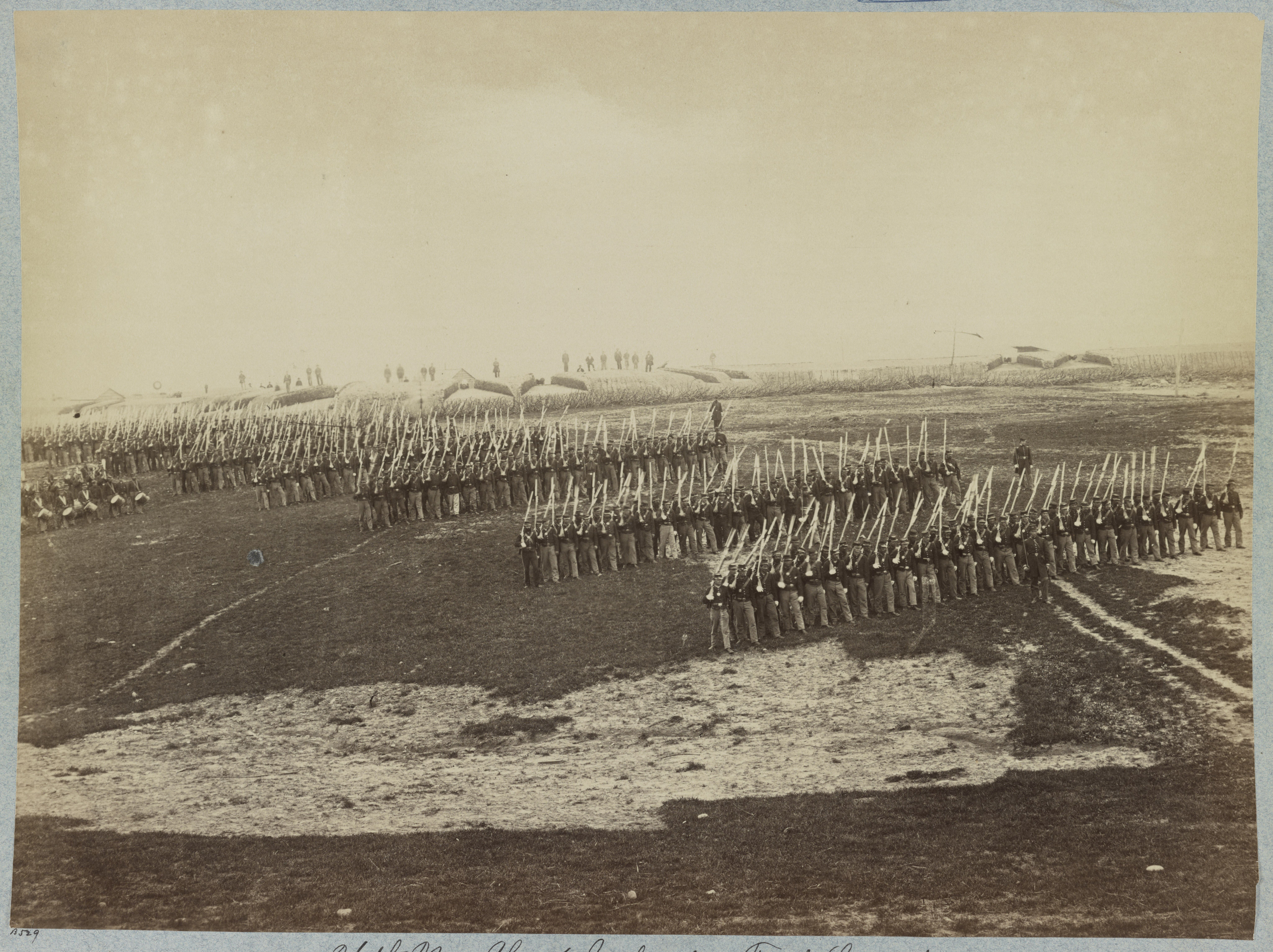 Title: 26th New York Infantry, Fort Lyon, Va Physical description: 1 photographic print on card mount : albumen. Notes: Hand written on verso: "similar to LC-B8184-545".; Gift; Col. Godwin Ordway; 1948.; No. B529.; Title from item.